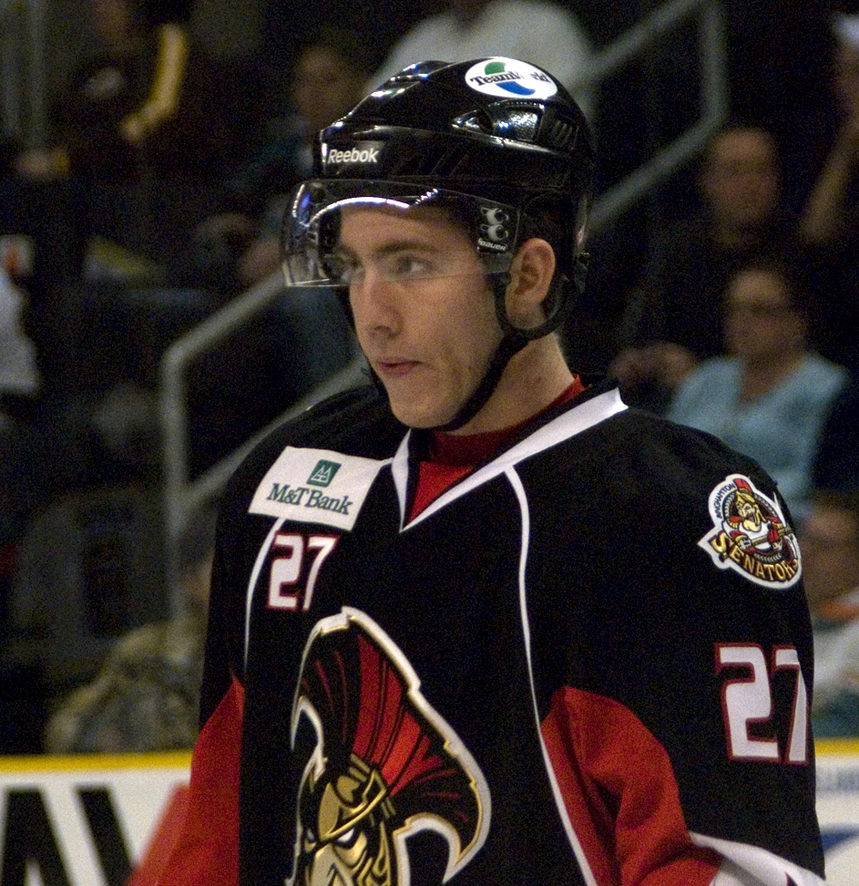 Mike Hoffman of Binghamton Senators